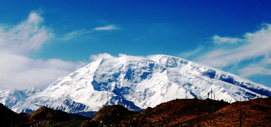 I took this photo on my way to Tashqurgan in 2011